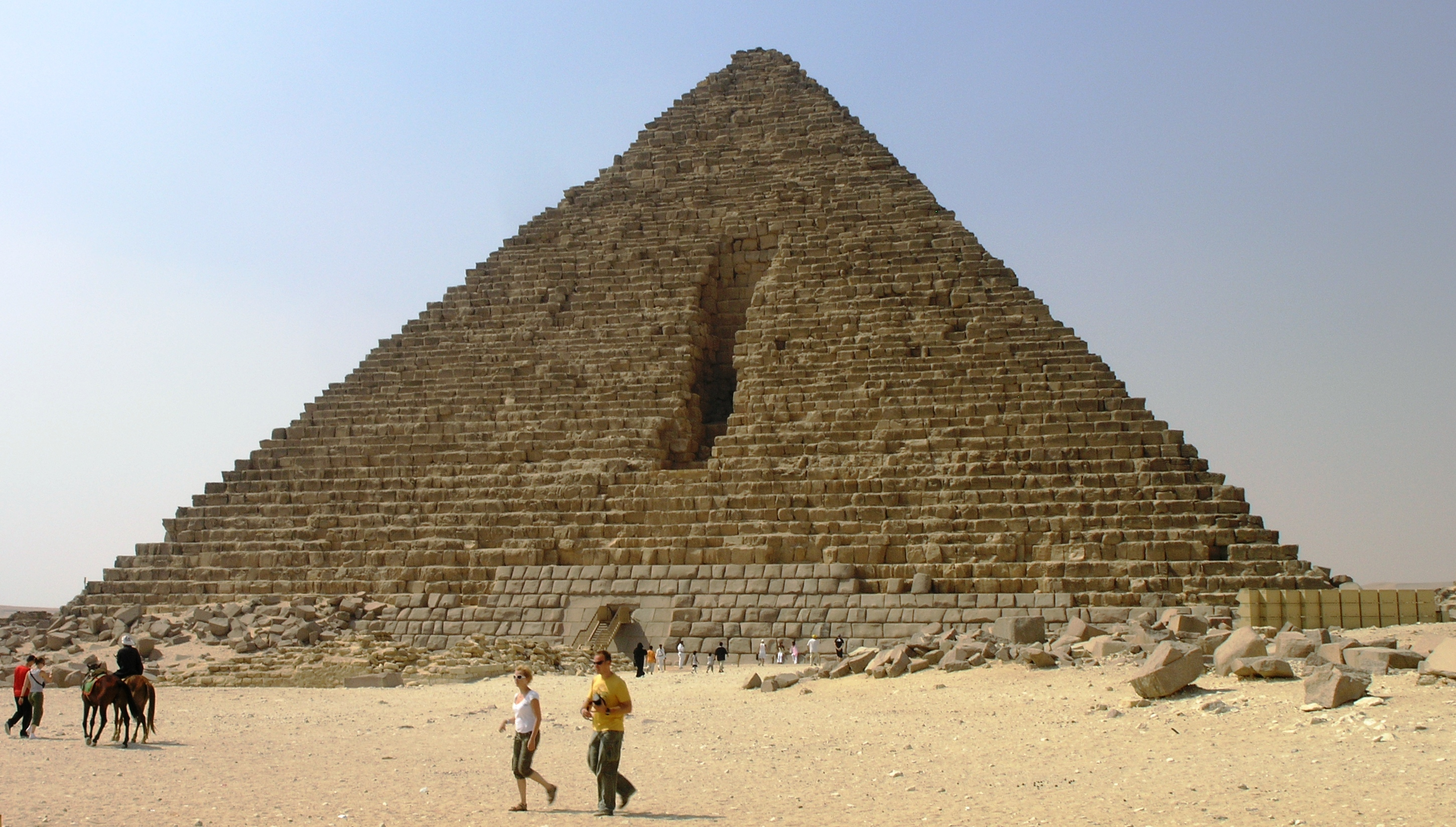 Giza Plateau - Pyramid of Menkaure